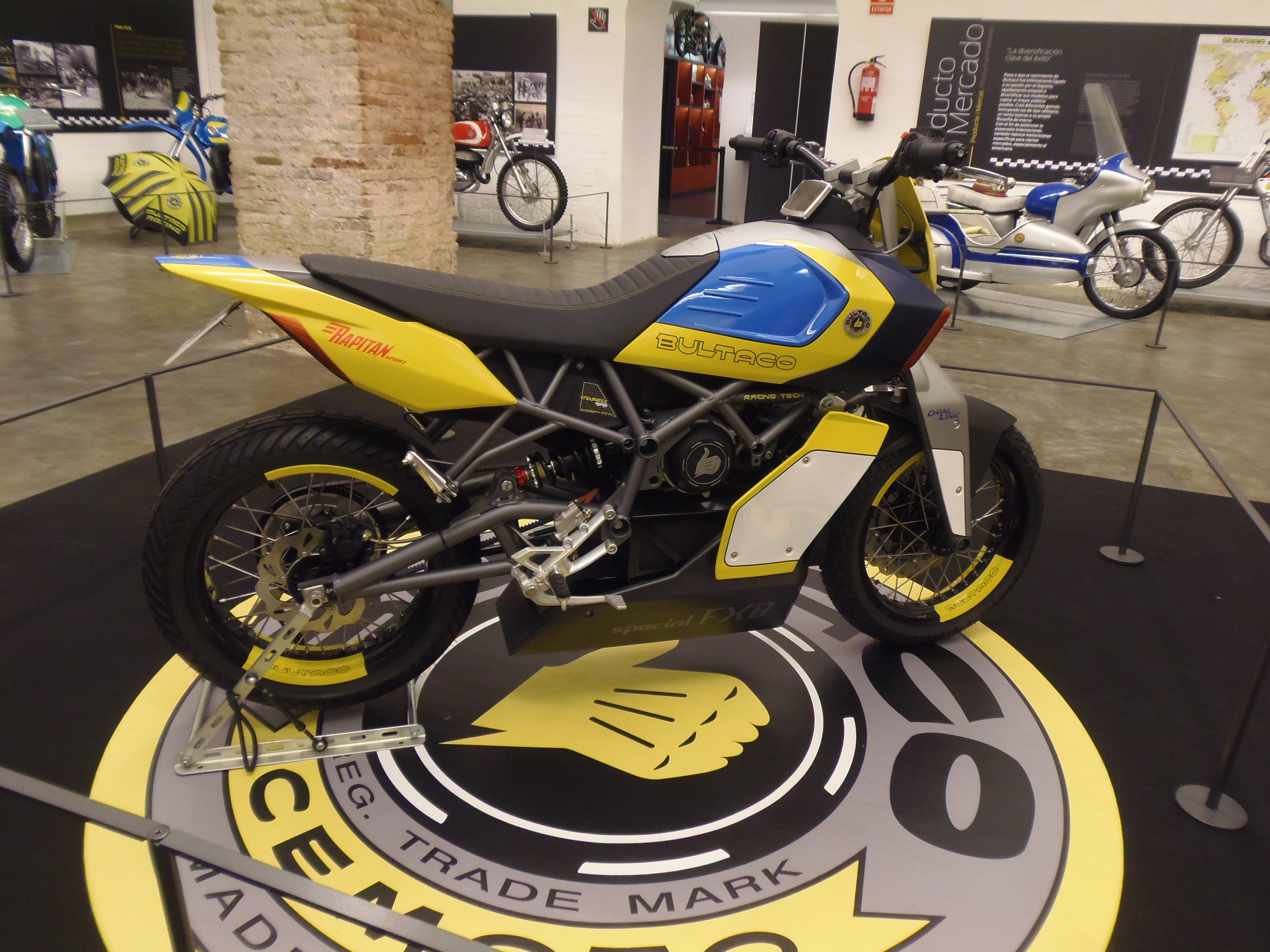 Bultaco Rapitan Sport, 2014. It has a futuristic, 100% electric bike system that develops a great acceleration and maximizes range by recovering and accumulating more braking energy than any other electric bike. It will be distributed in 2015.